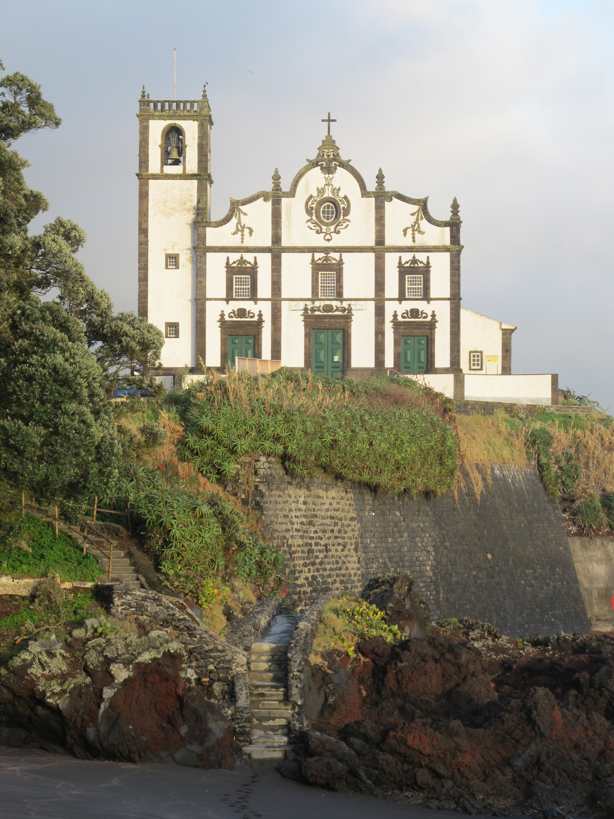 Church of São Roque, São Roque, Ponta Delgada, São Miguel, Azores January 2016